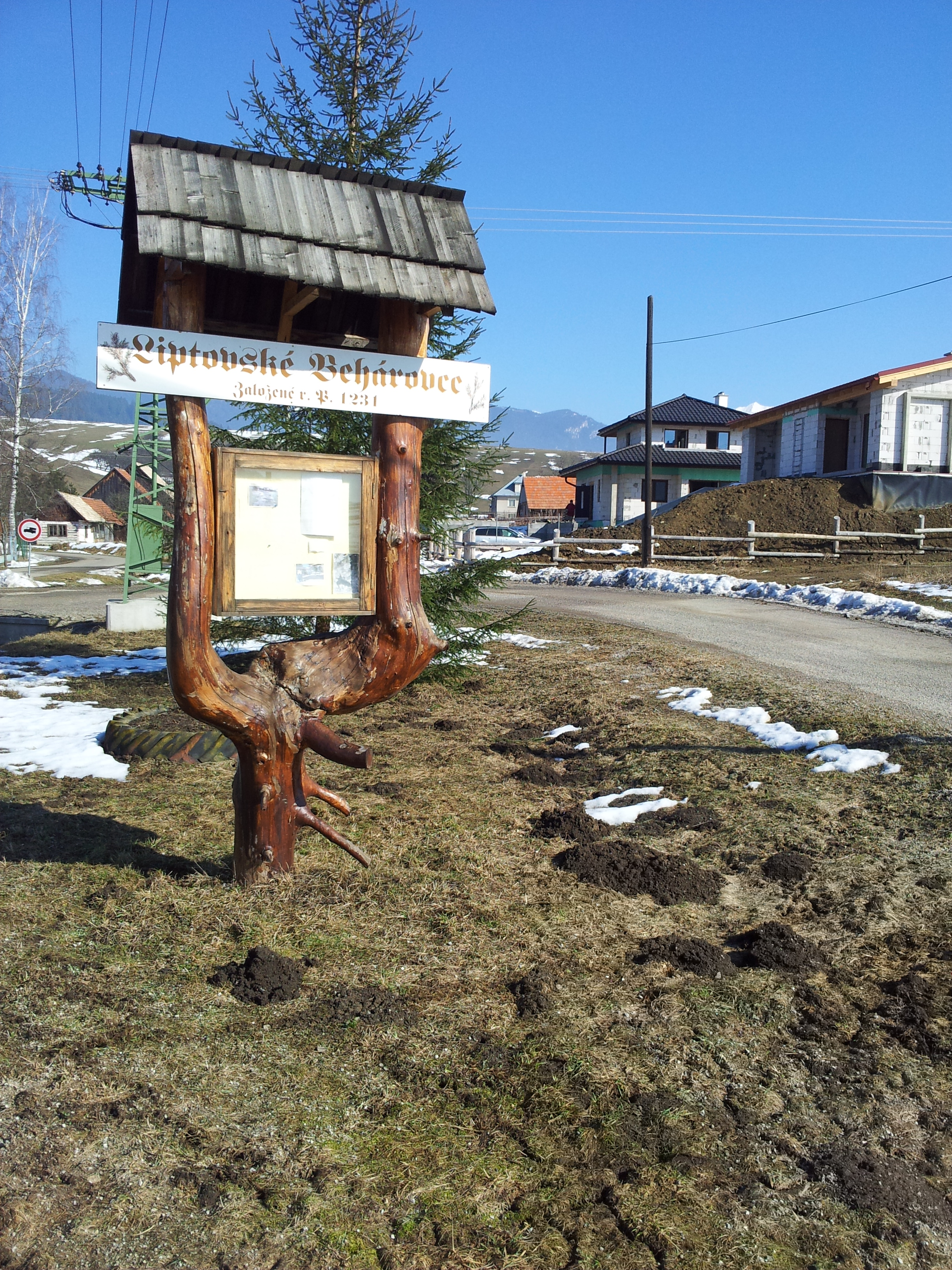 When entering Liptovske Beharovce you will see this wooden sign